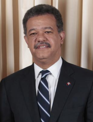 Leonel Fernandez Reyna.